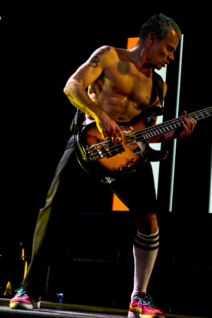 Flea performing with Red Hot Chili Peppers at the Prudential Center in Newark on May 4, 2012